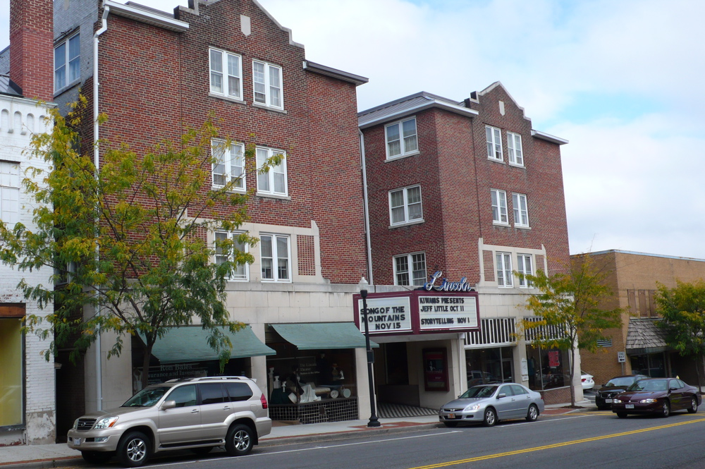 This is the restored Lincoln Theatre on Main Street in Marion, Virginia.